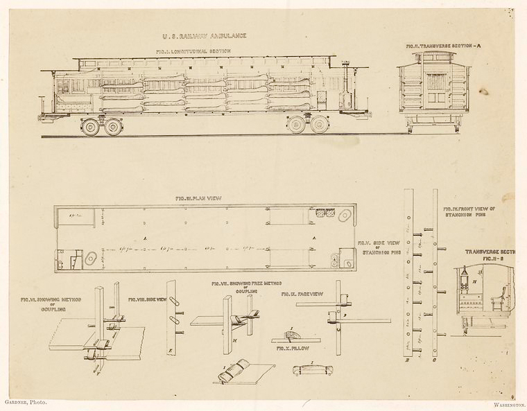 Plan of US Sanitary Commission hospital car for the transportation of sick and wounded soldiers